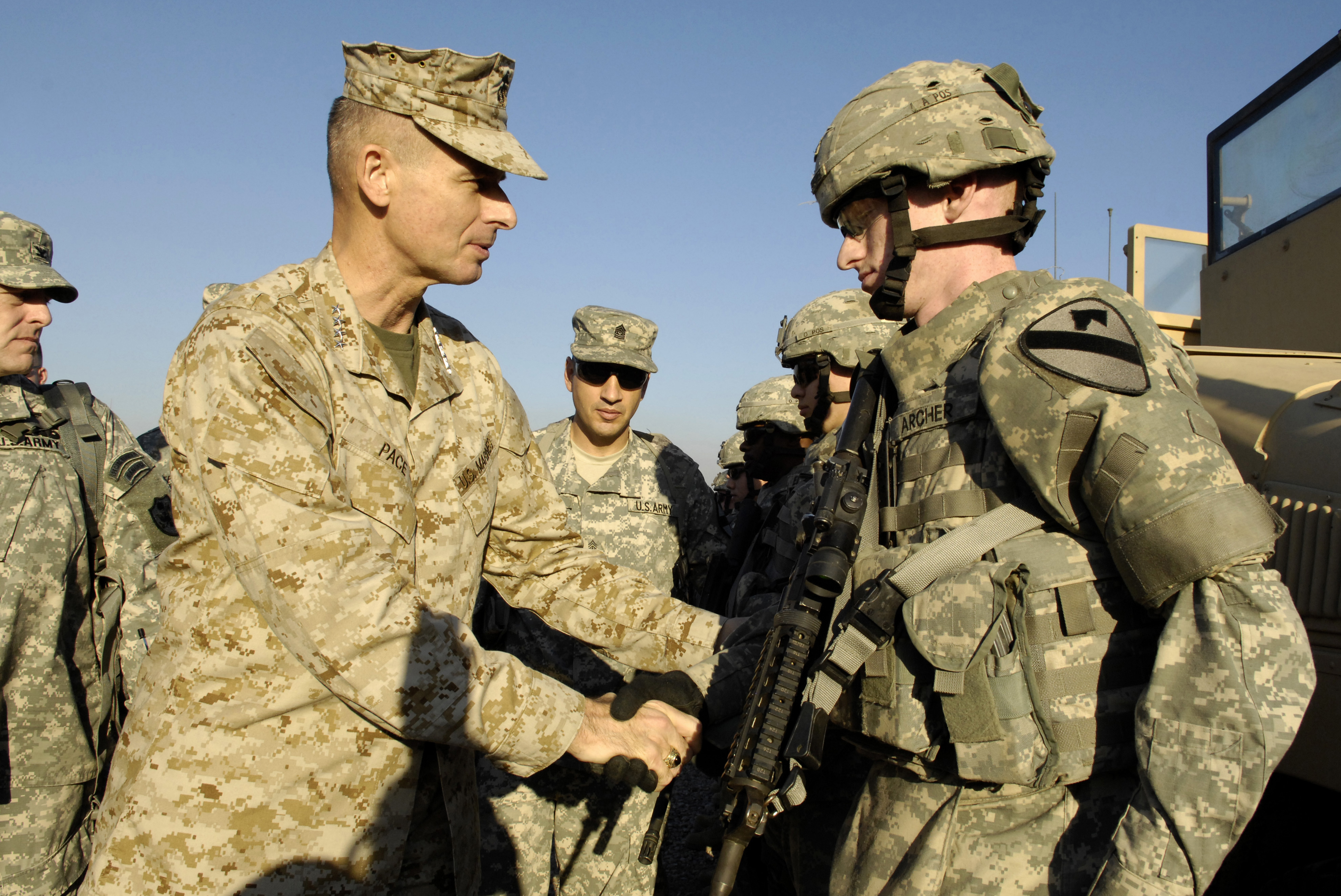 ID: 061220-D-7203T-020 Chairman of the Joint Chiefs of Staff Marine Gen. Peter Pace meets with U.S. Army Soldiers from the 1st Cavalry Division during a visit to Baghdad, Iraq, Dec. 20, 2006. Pace is traveling with Secretary of Defense Robert M. Gates.